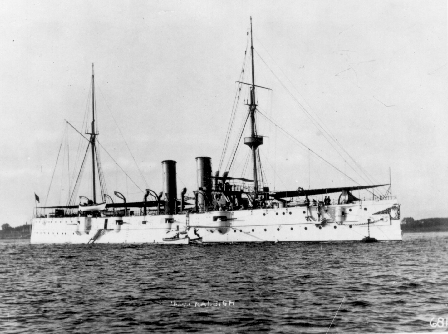 US Navy photo taken from NavSource (